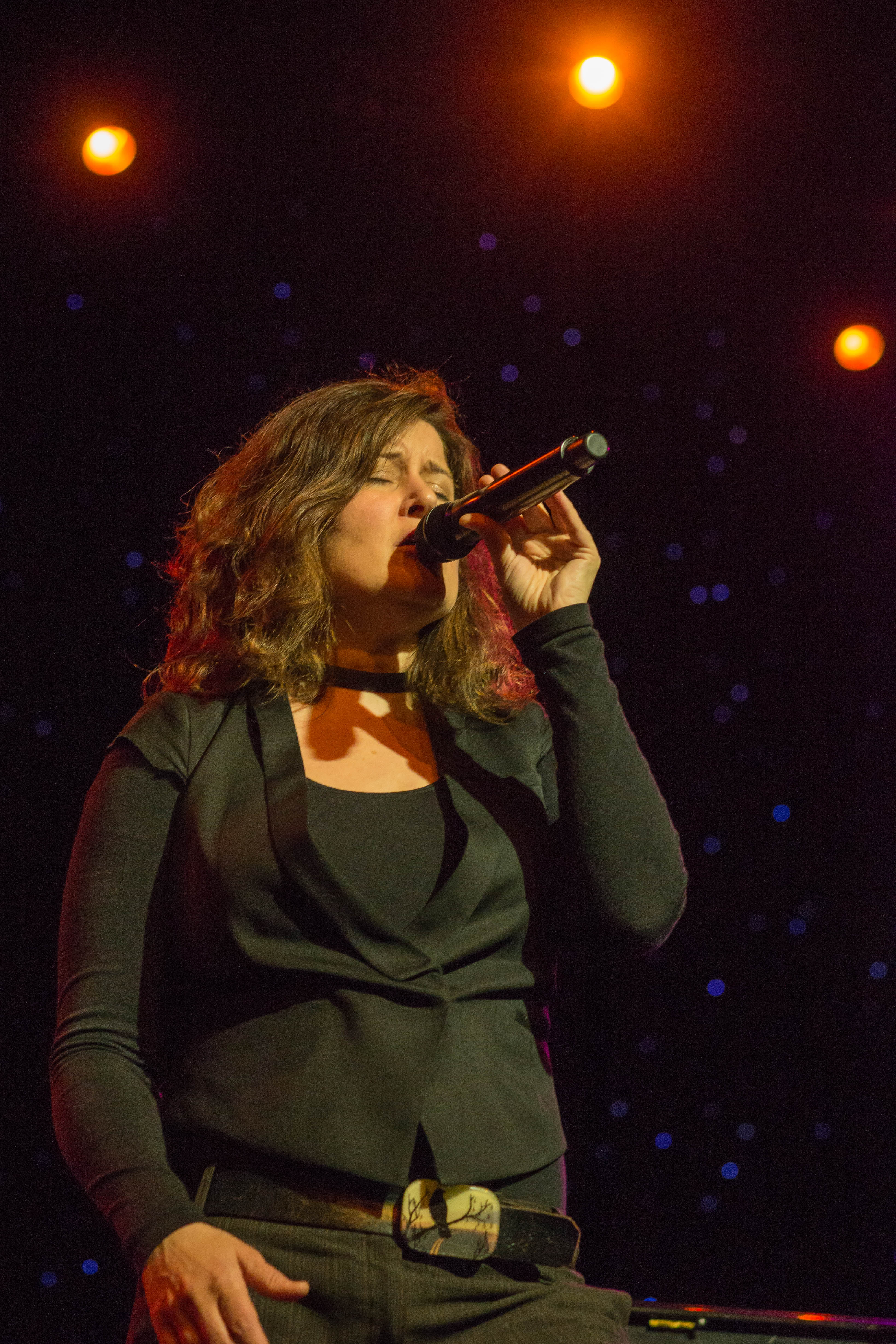 Paula Cole @ The Triple Door